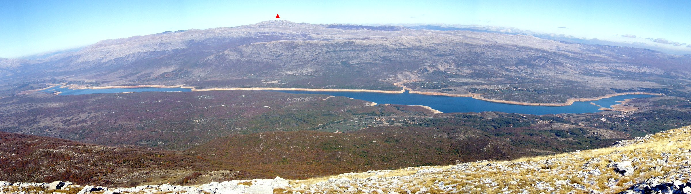 View of Dinara mountain (Troglav peaks are marked by red triangle) and Peruča Lake, from Svilaja.